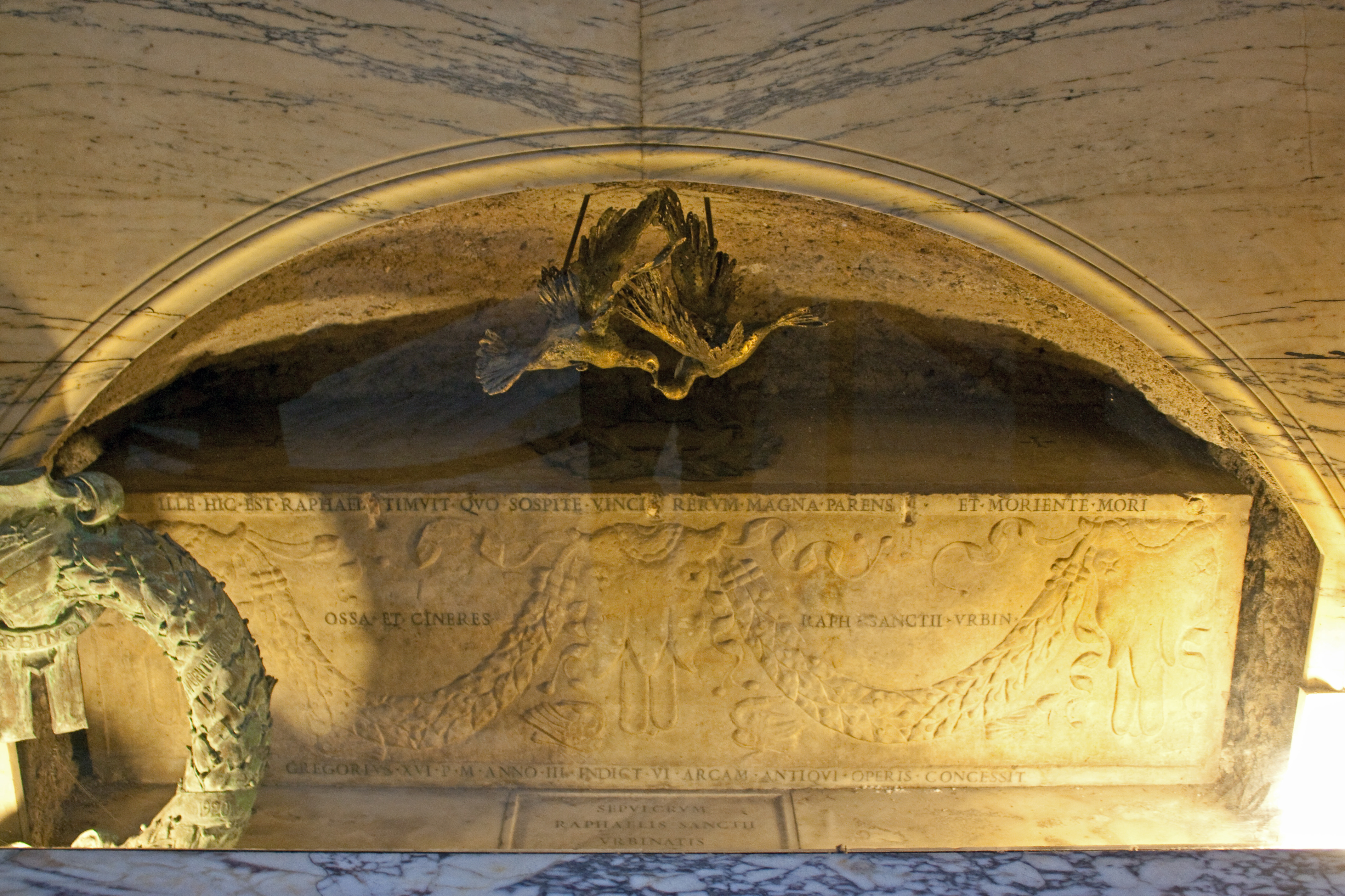 Grave of artist, Raphael, in the Pantheon in Rome, Italy.